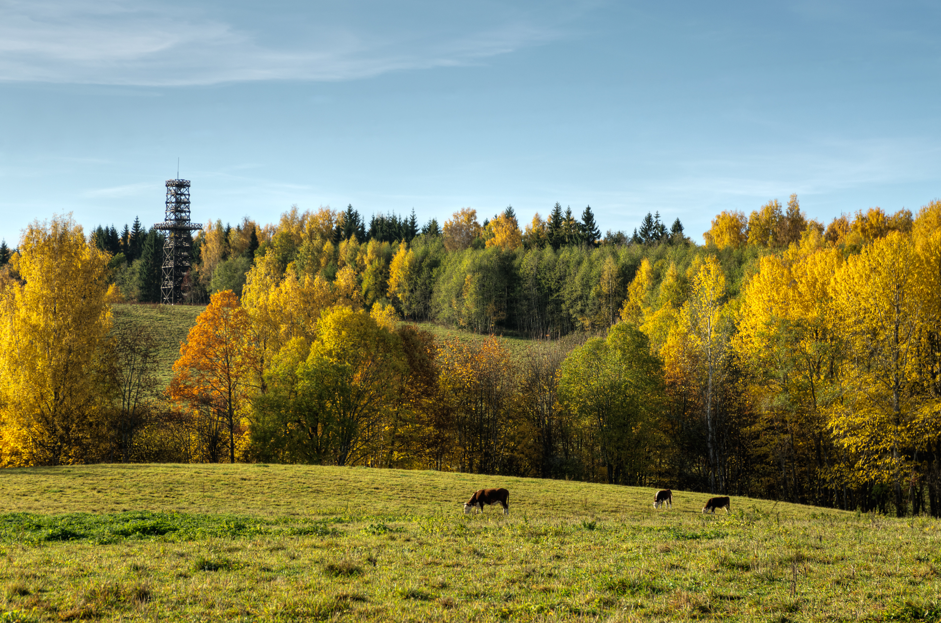 Rebasemõisa viewing tower in Karula National Park.